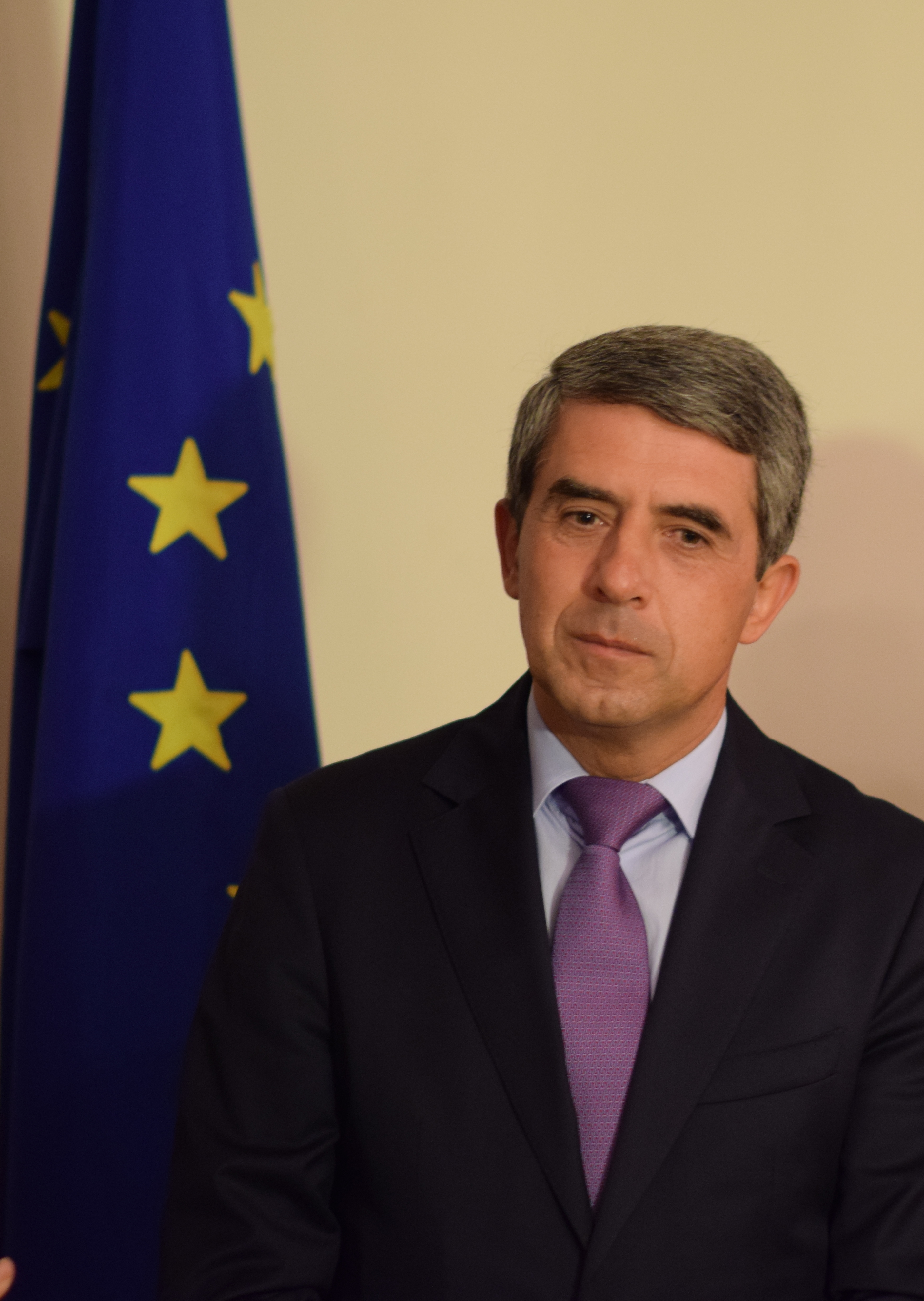 Bulgarian President Rosen Plevneliev